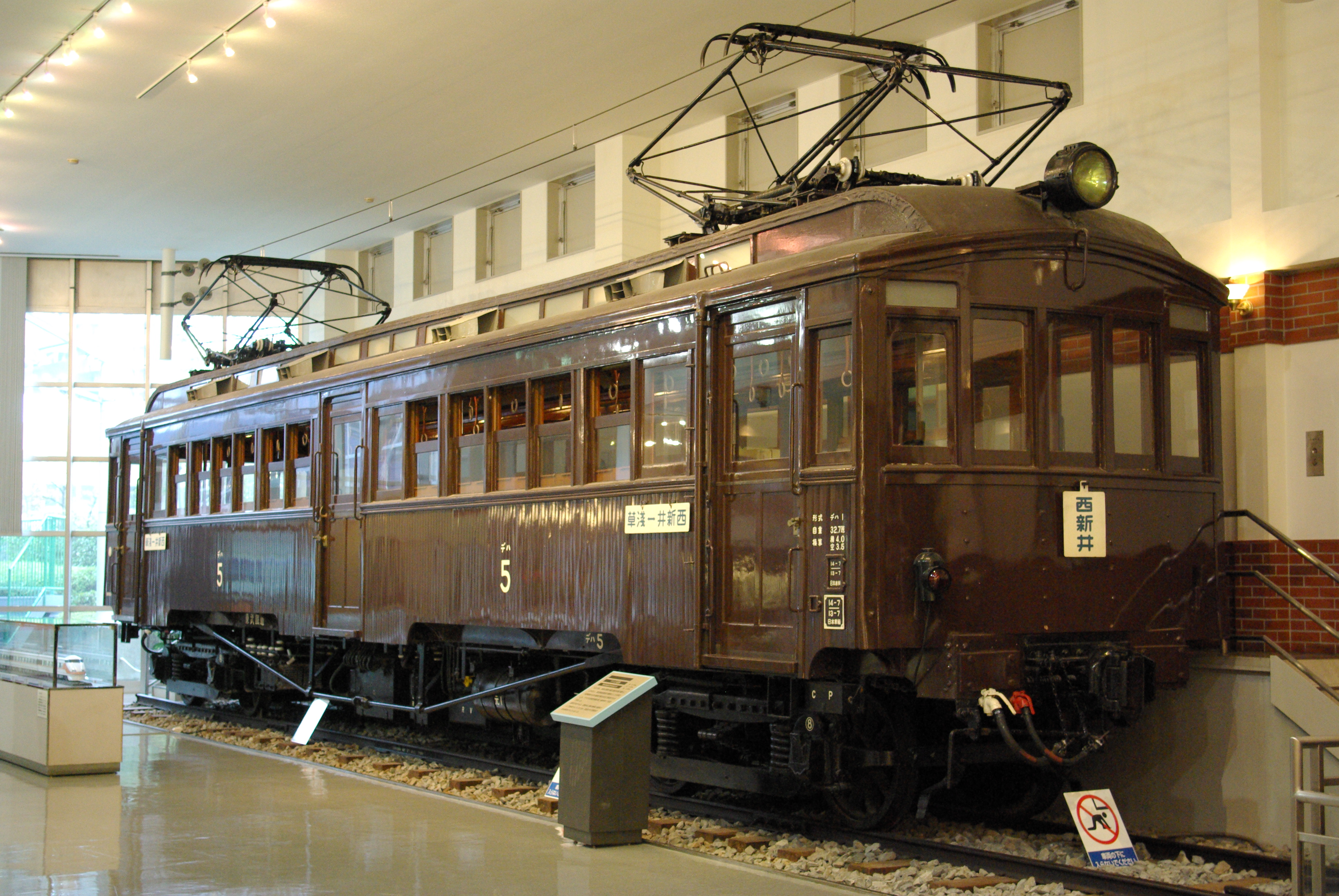 Tobu DeHa 1 class EMU car No. DeHa 5 preserved at the Tobu Museum in Tokyo